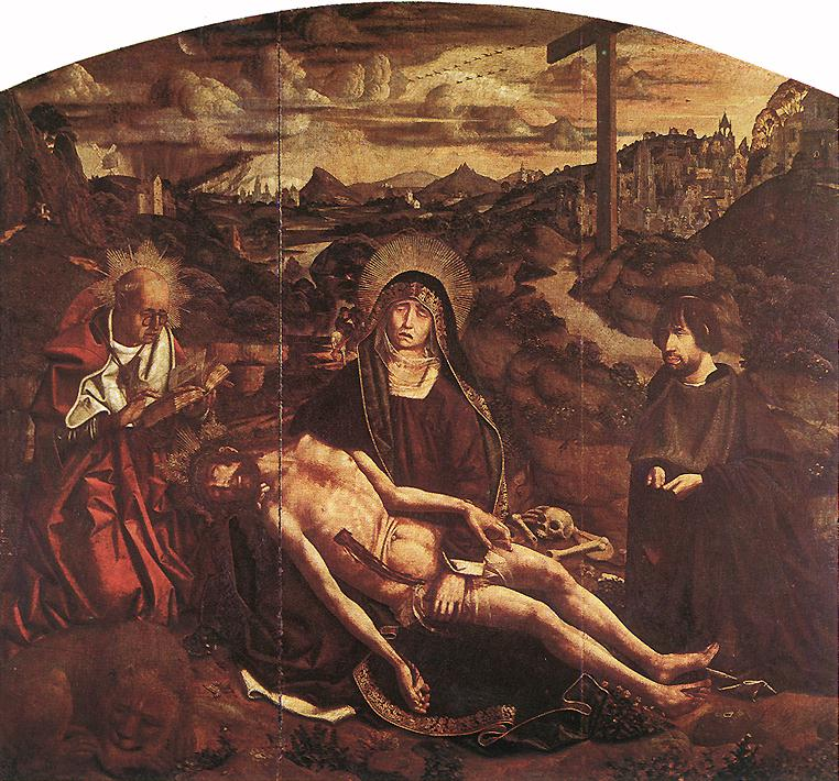 Pietà, by B. Bermejo. Barcelona, Catedral